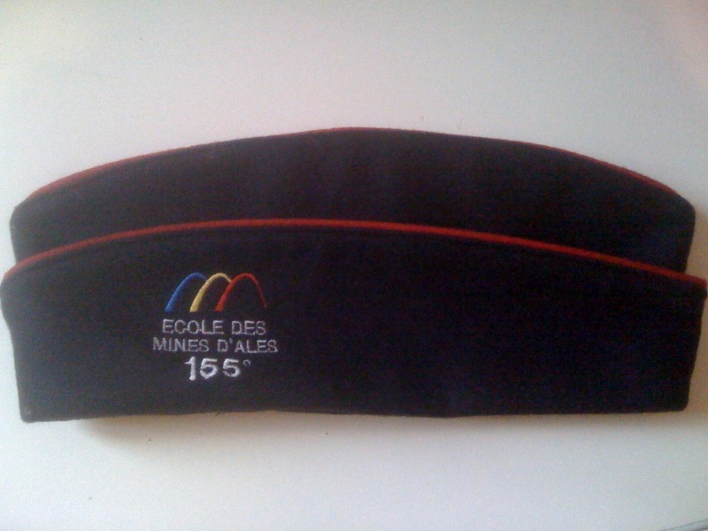 Photograph of the "Ecole des Mines d'Alès" (a French Engineer's School) cap